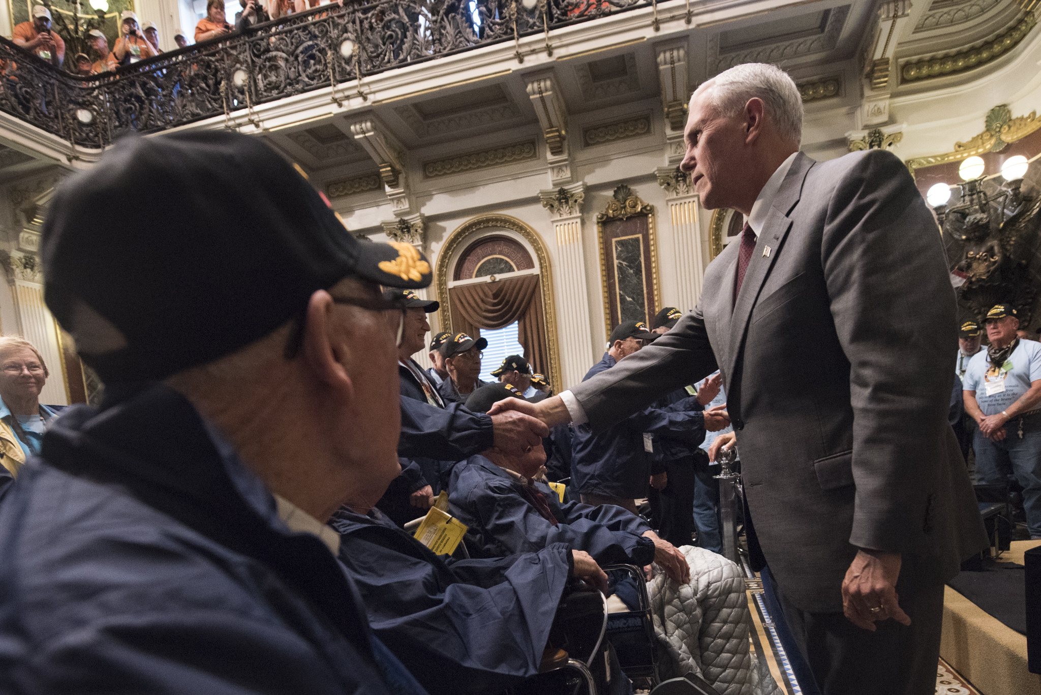 Vice President Mike Pence participates in an honor flight reception in the Indian Treaty Room, in the Eisenhower Executive Office Building, at the White House, Monday, May 8, 2017, in Washington, D.C.